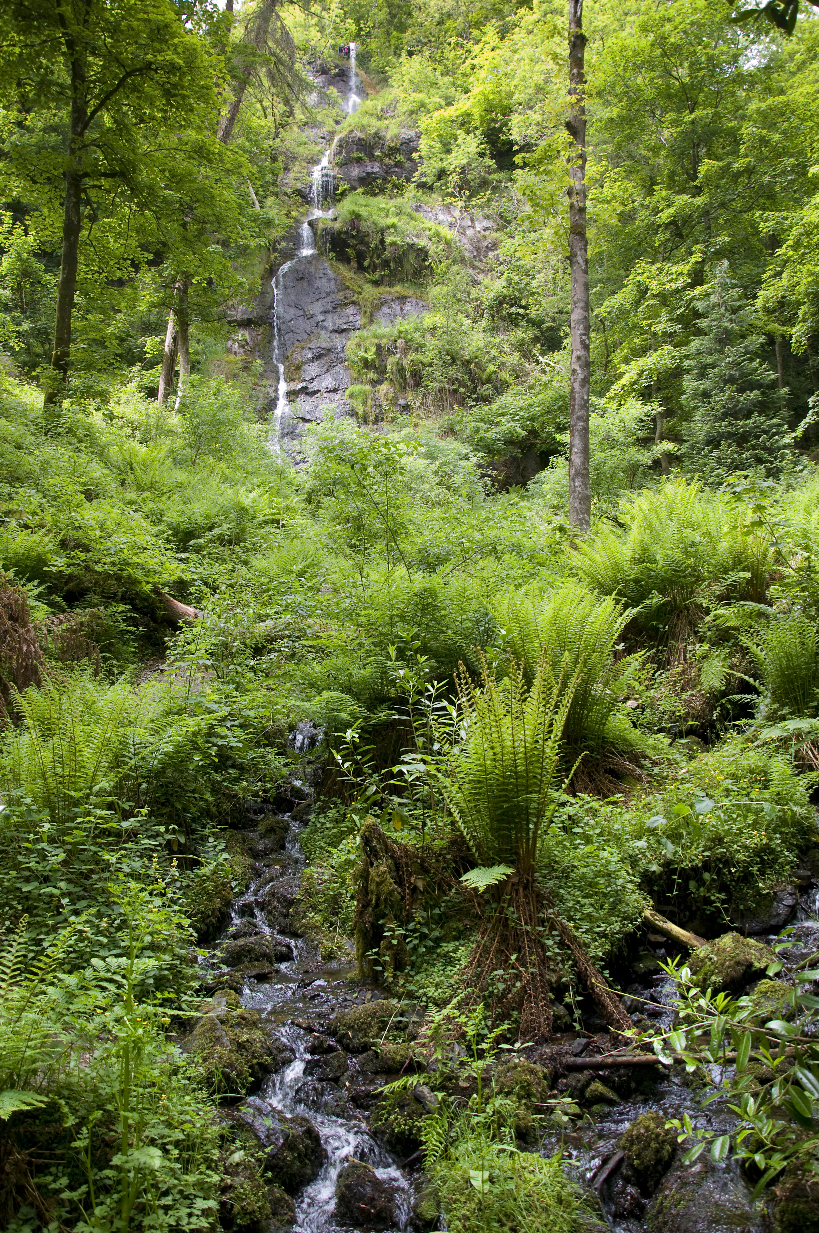 This shot covers the majority of the drop of Canonteign Falls in Devon, England.